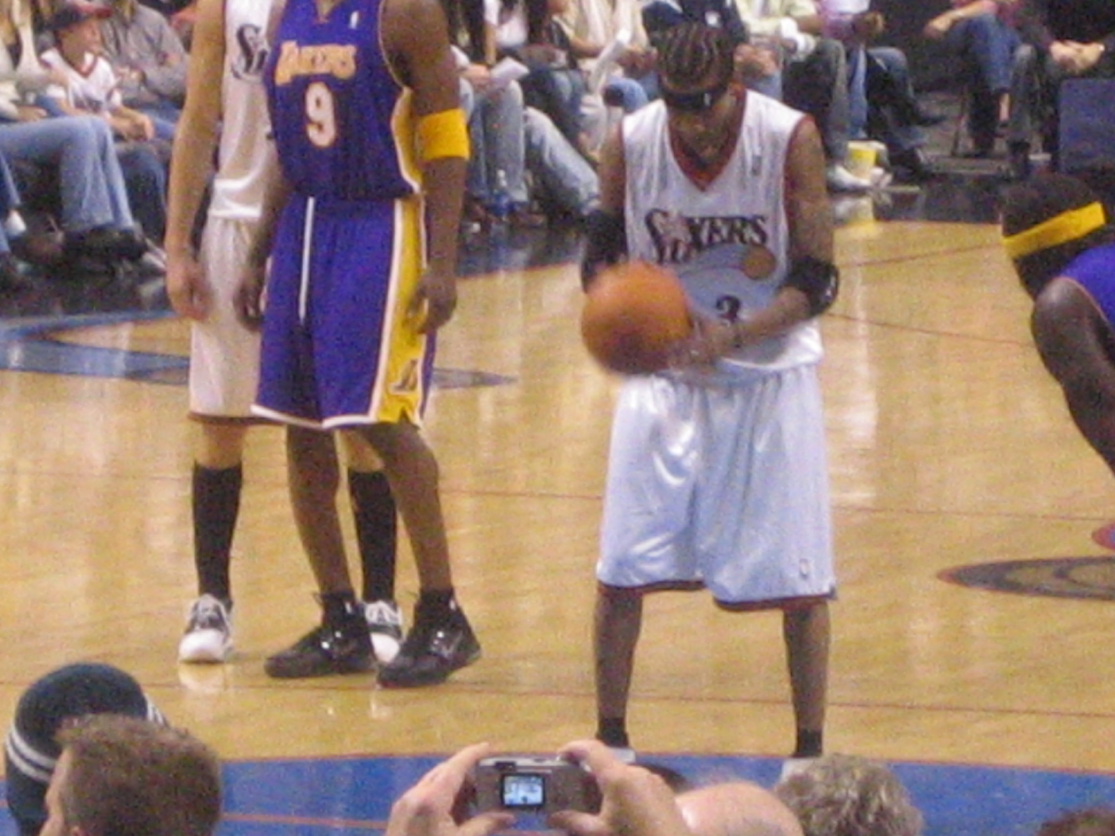 Allen Iverson on November 11, 2005 against the Lakers